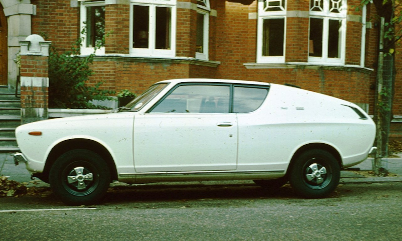 Datsun Cherry Coupe in England 1974